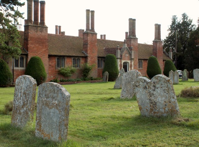 The Hospital of the Holy and Blessed Trinity This is the view from the churchyard at Holy Trinity church in Long Melford.